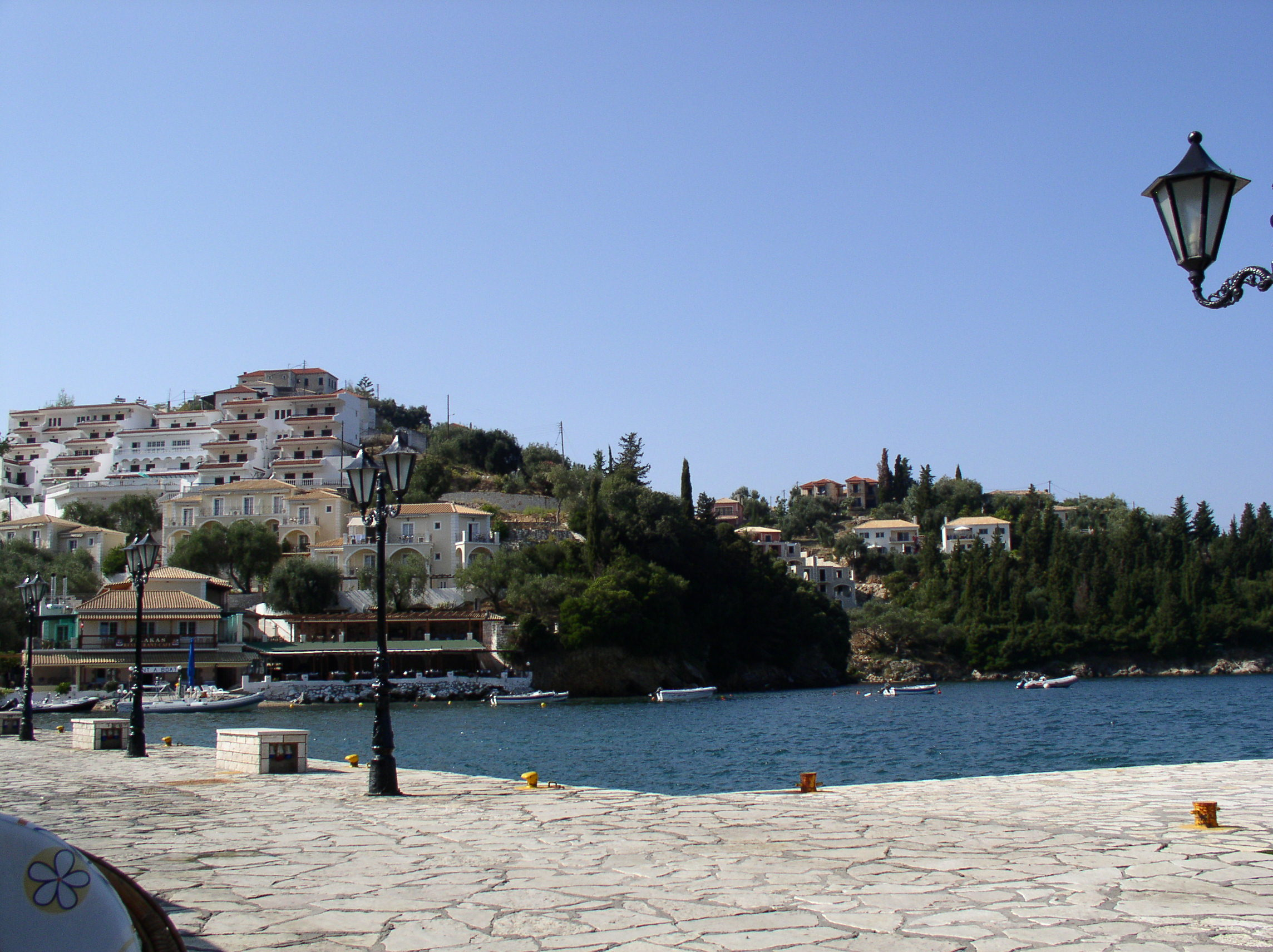 Harbour of Syvota